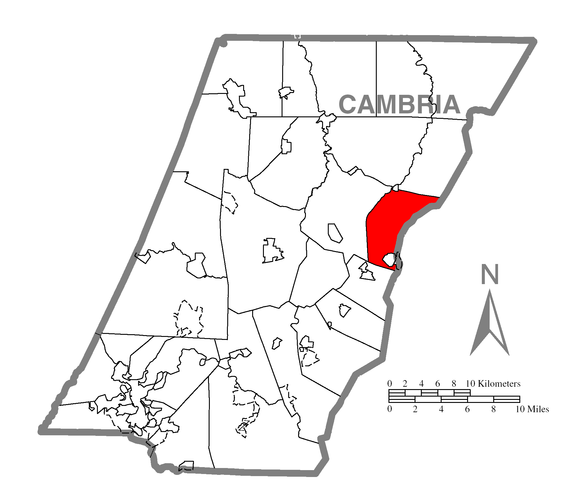 A map of Cambria County showing Gallitzin Township, Pennsylvania (alternate) highlighted on the map.